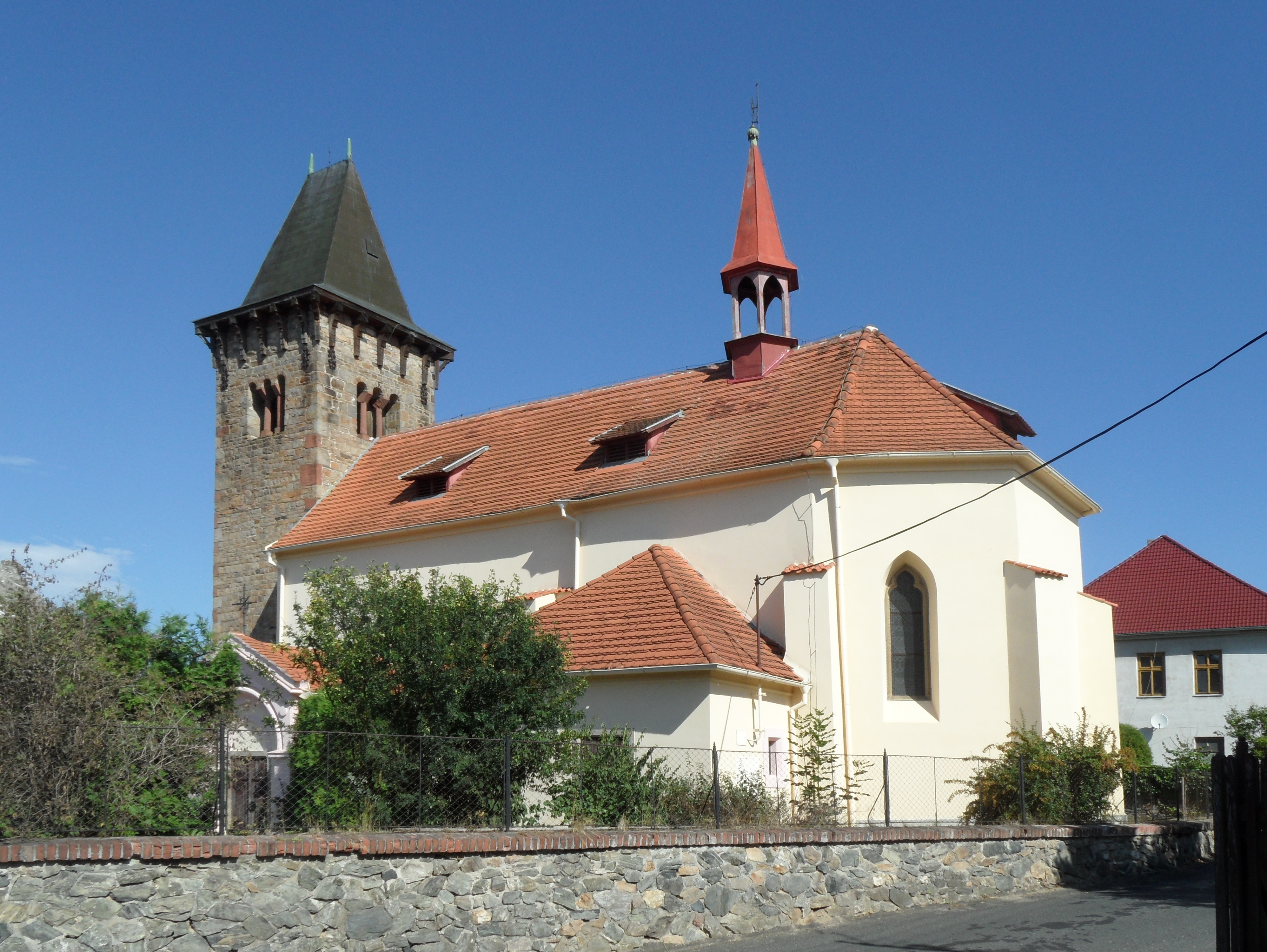 Pertoltice B. Church of Saint George (Cultural Monument), Kutná Hora District, the Czech Republic.